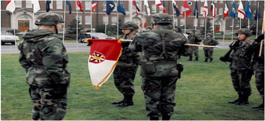 555 EN BDE Activation ceremony January 18, 1992.